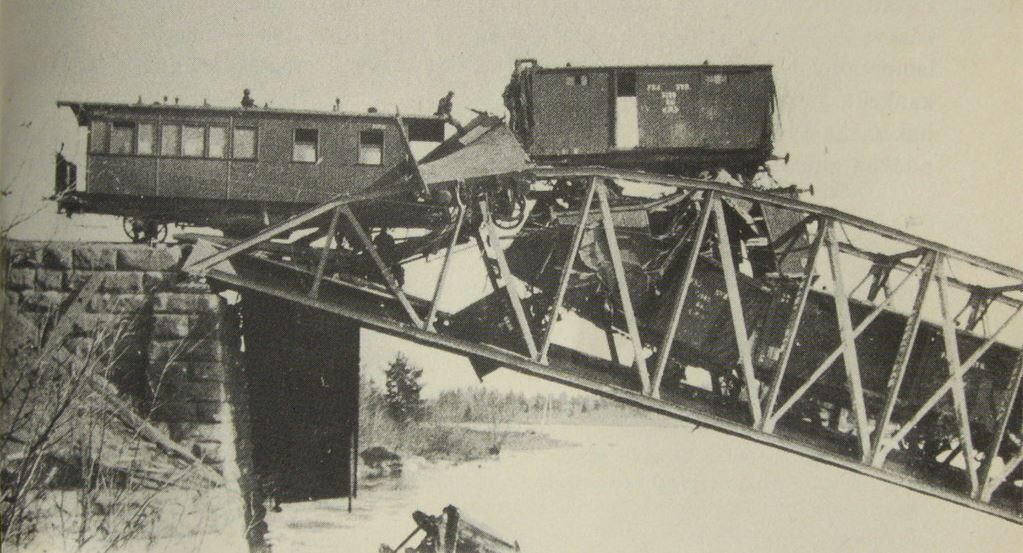 Pahakoski railroad bridge, Kokemäki, Finland. Destroyed by Red Guards in April 1918 during Finnish Civil War.